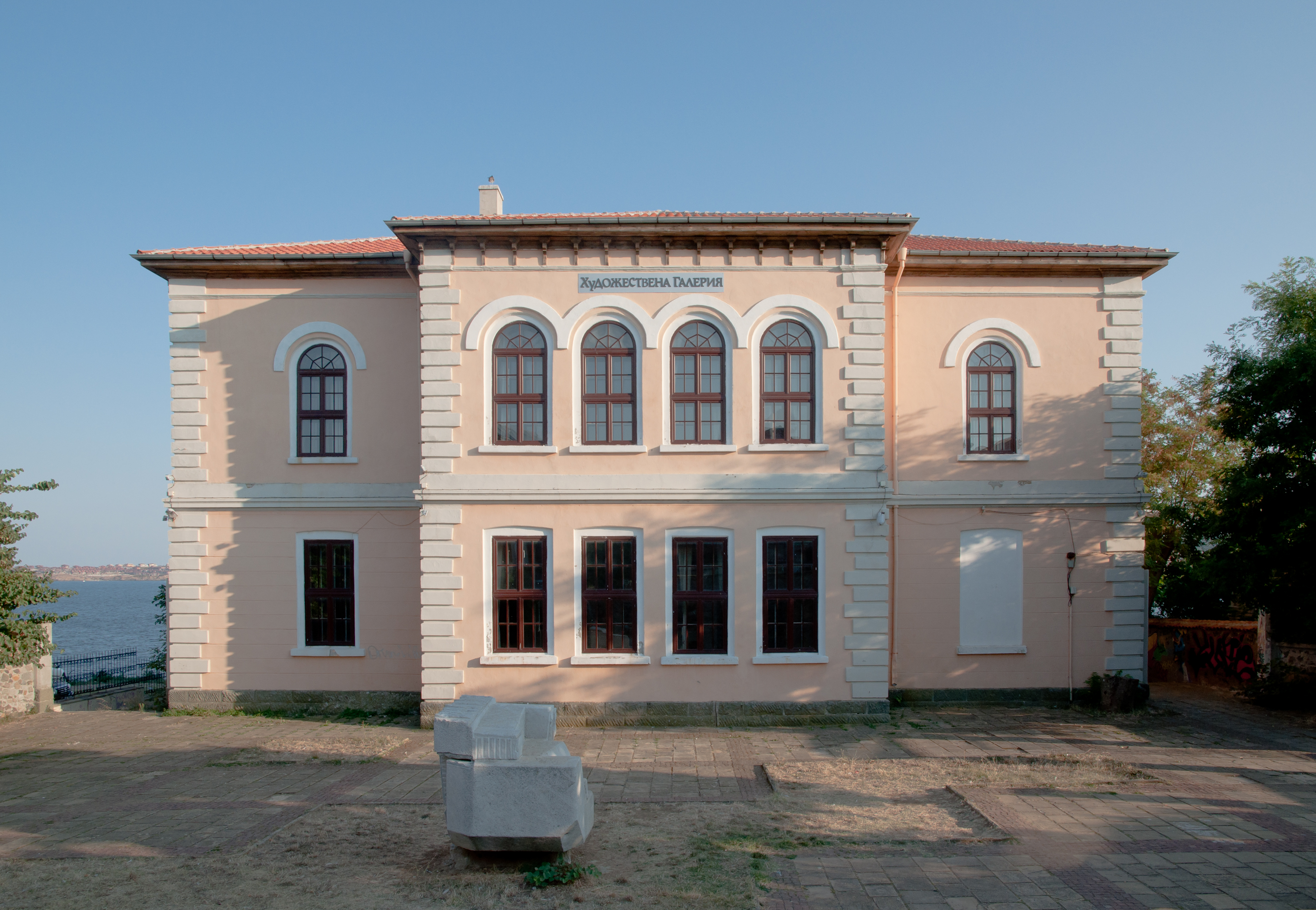 The Town Gallery in Sozopol, Bulgaria.